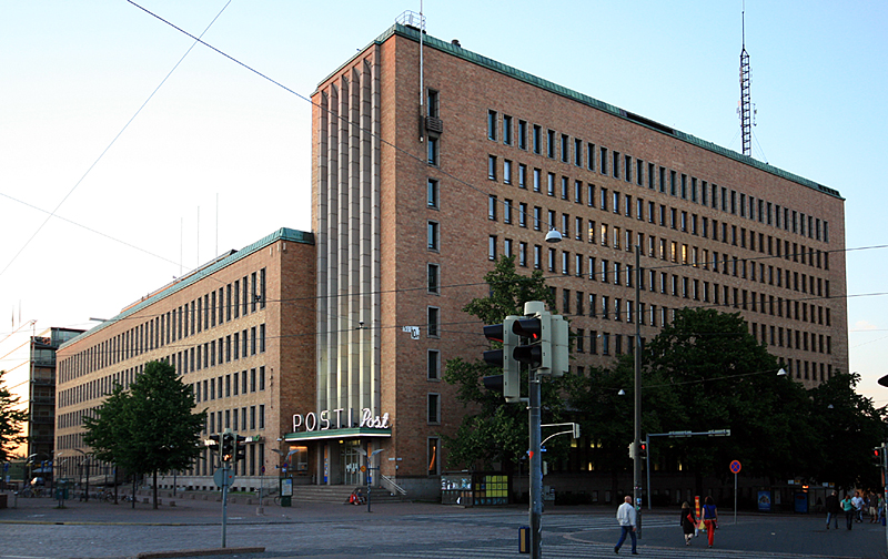 Main post office, Helsinki. Built 1938. Architects: Jorma Järvi, Erik Lindroos.